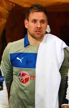 Rob Elliot